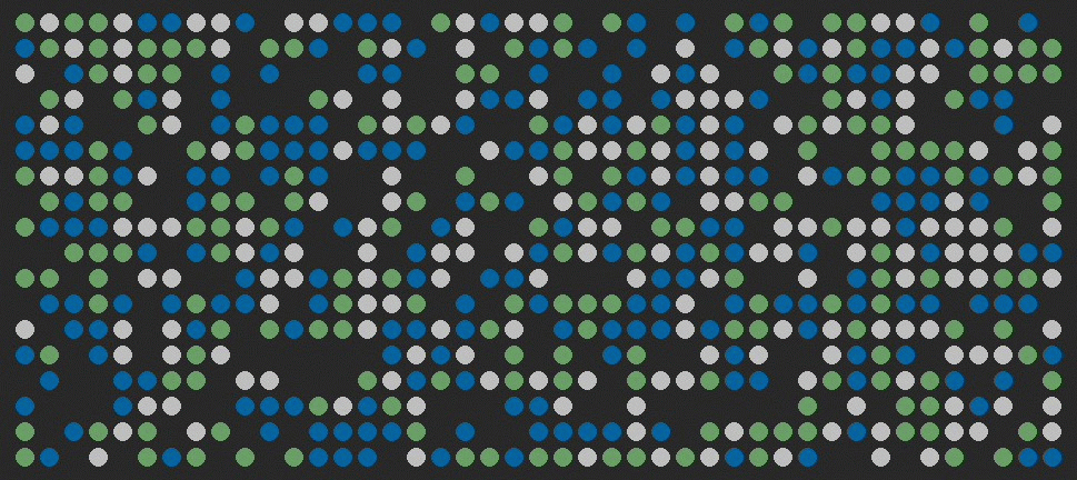 Visualization of DNA sequence invented in 2015 by Polish scientist Gregory Podgorniak, above this sequence - GCGGCTTCCTACCTTTAGCTCCGAGTATAGTGAGGCCTAGATATGCGCGGGCAGGTAGCTACAGTGTATACATG CTCGTTCTGCGGCATGCGGATATAAATTAAGGATAATACTCAAGTGTTCCAGGGGAGCAGTCATAAAGCACAAC TTCATTATCCCTAAGCTCAGTTAATCTAAGCATGTTTAGCGCTAAGTCTCGTCTACGCGGCAAATACTTTGTAA GCGTTTCTTTAACTTGCCGCTCTCAGAAGGGGCACGGCCGTCATTATGTAACAAGAACGAGTCTCTTACTGGTT GTGCGAGTGGAATGGAGCAACGATGTACGTGTACCGGAAATTTCTAAGGTTTCCCGGCGTATCGATCAAGTCCA GGTTACCGCCTCCCGACAAGGGTATGCTCAACATCCACTGCTGCTGTCCTACGCTCCCTTGGAGACCAATCCTG CGTCATTCAAACTTCGAACATGCGCCGGCATTGTATGTTCATGCCGATAGTGGGTTCATGTTGTGTTATTTACA TTCACTGAGTGGCTTCTGCATGTTTCTGGCTCGCCCGAGACTGATCACGCAAAAAATCTCAGAGATGAACTCAA CTGTACCCGTATAATTGGACCAAAGCTGTCGCGCAGCCGTTACGTGCGTATAGTAAATCCAATTTGCTGCAAAT TCAACAAAAAAGACAGGCTCACGATGCGACGATATTTTGATAATTTTCTAGCGGGCTCGGCCAGCGTACAGTGA GAGTTTACTGGTGGCGGCGCTGCTAACACGAGTT this type of sequence can be a recording of a single gene - an unit of heredity.